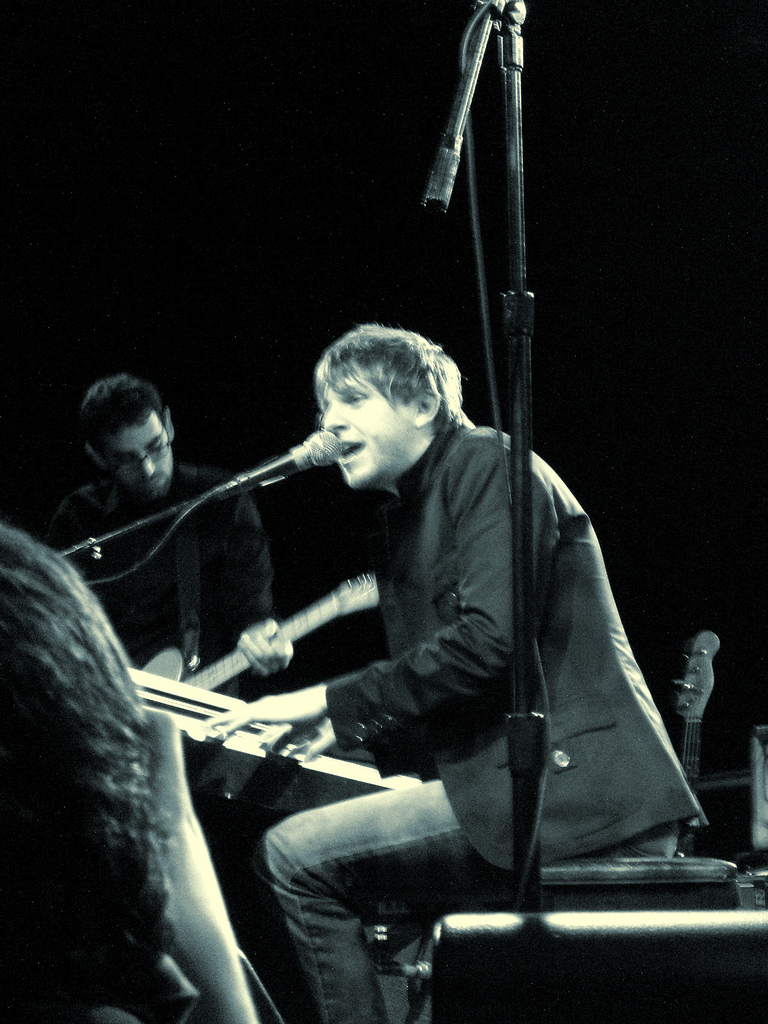 Singer Aaron Marsh performing with his indie rock band Copeland, in 2007.